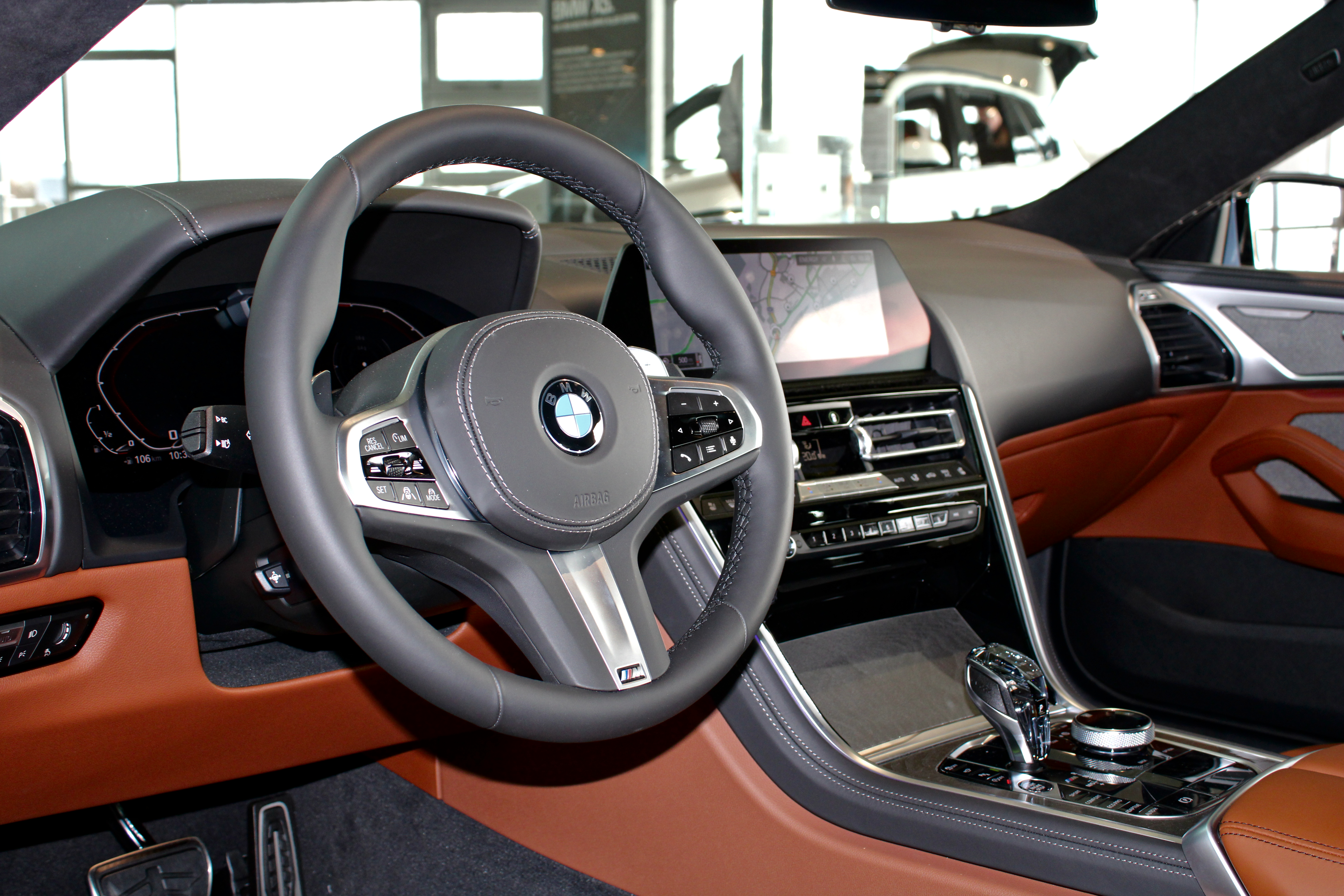 BMW M850i Coupe in Stuttgart-Vaihingen